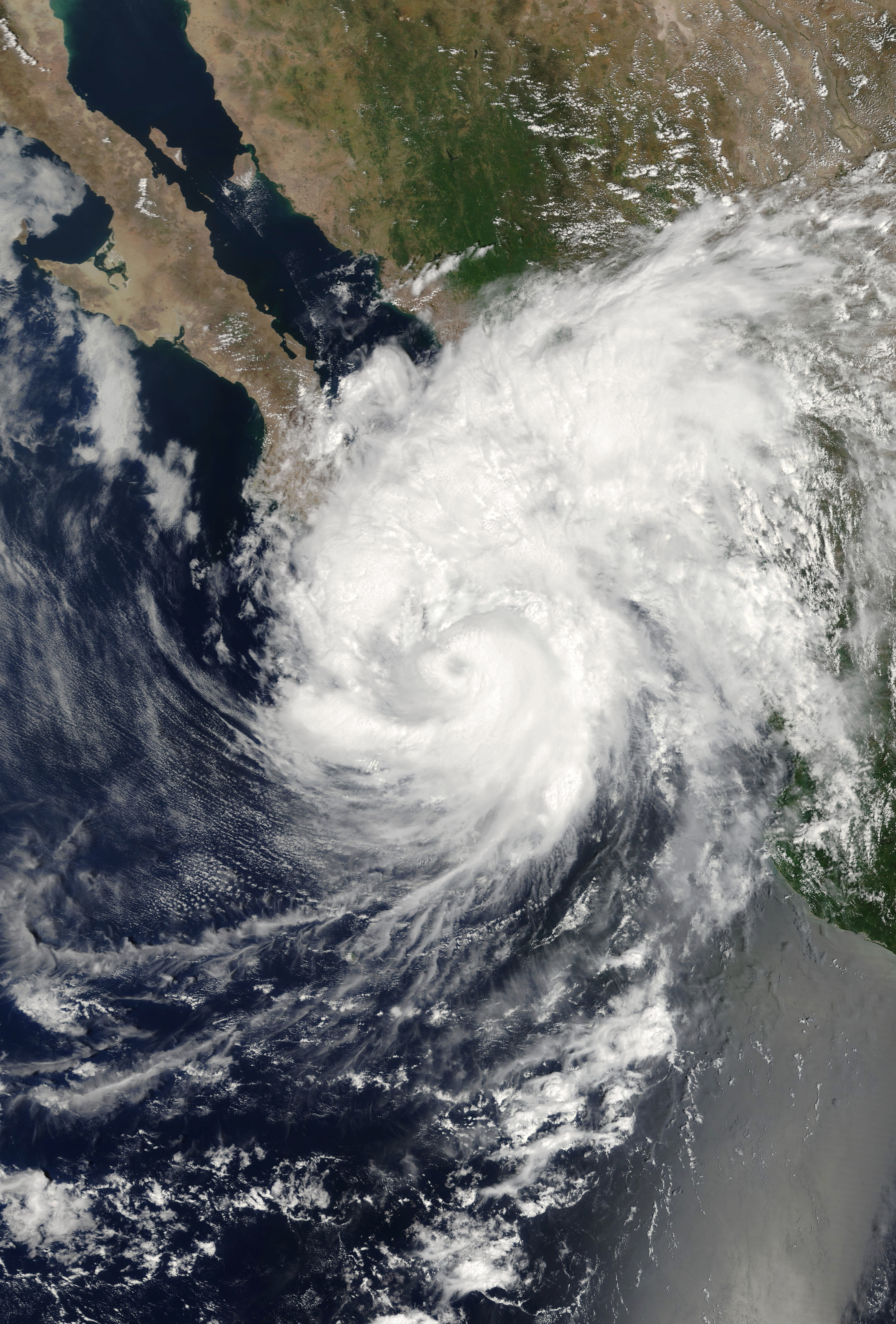 Hurricane Henriette on September 4. This image was captured by the MODIS instrument on NASA's Terra satellite at approximately 1825 UTC.